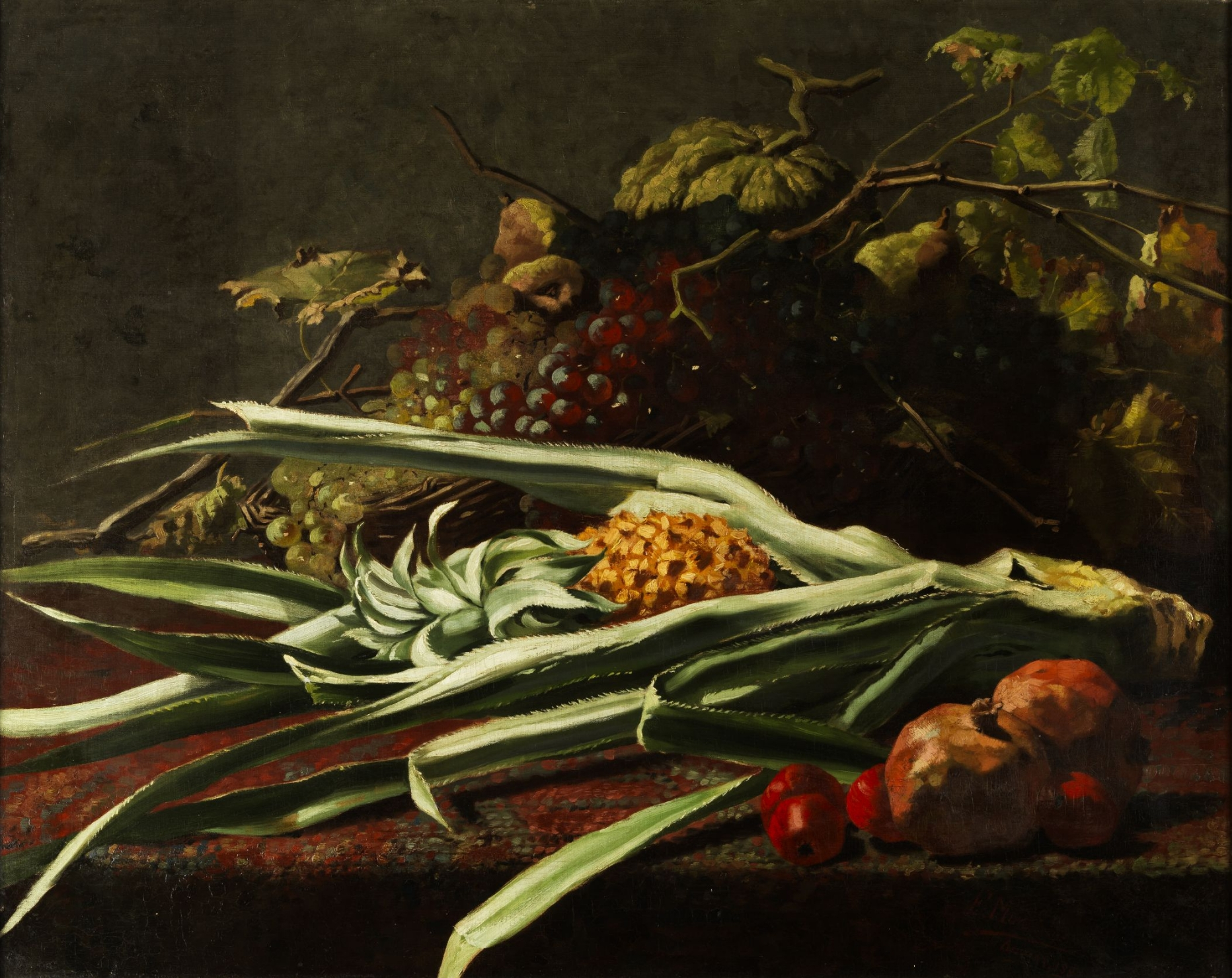 Still life with pineapple, grapes, apples and pomegranates. Oil on canvas. 74 cm x 95 cm.